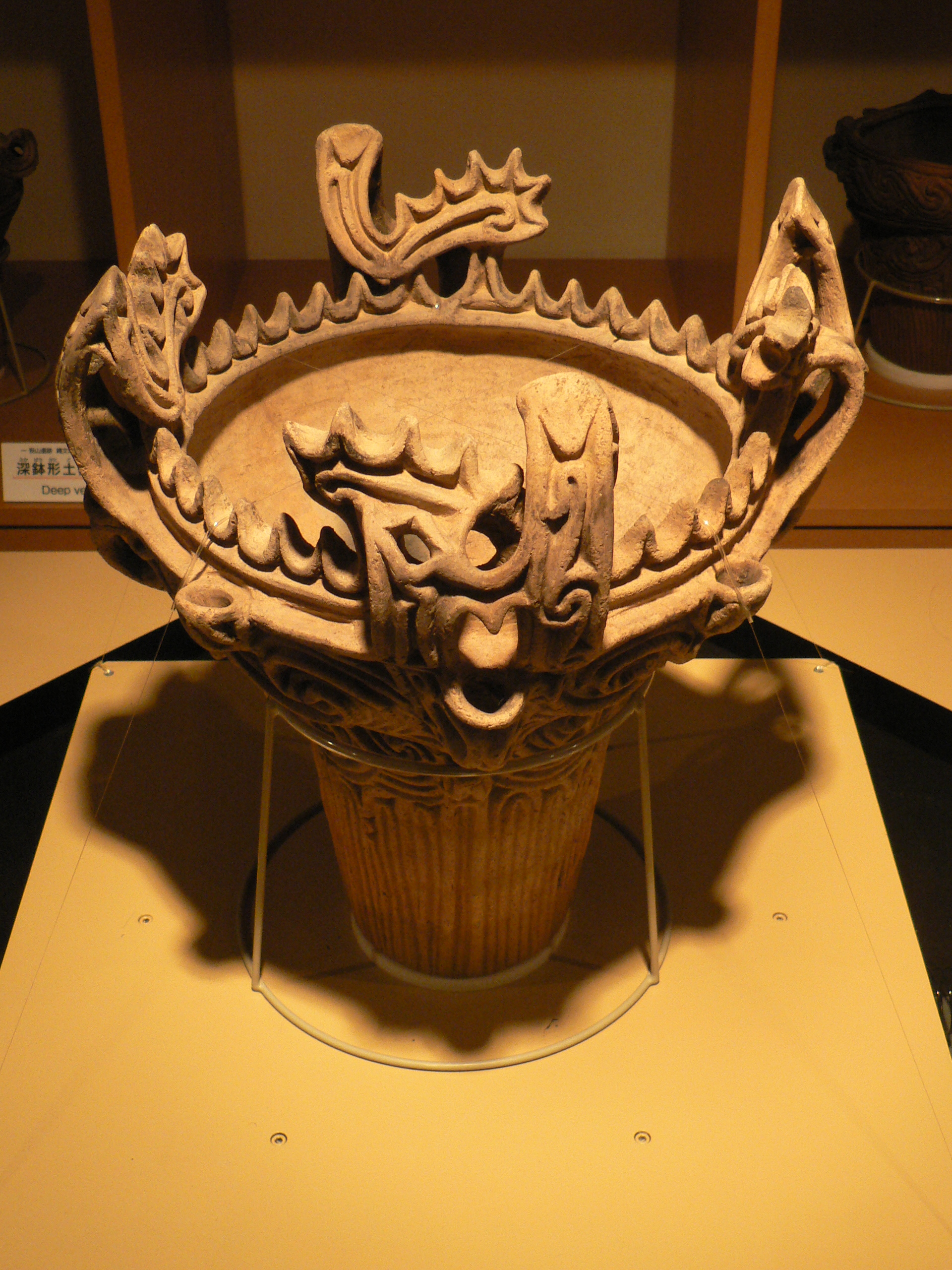 Kaen type vessel found from Sasayama, Tokamachi, Nigata, Japan